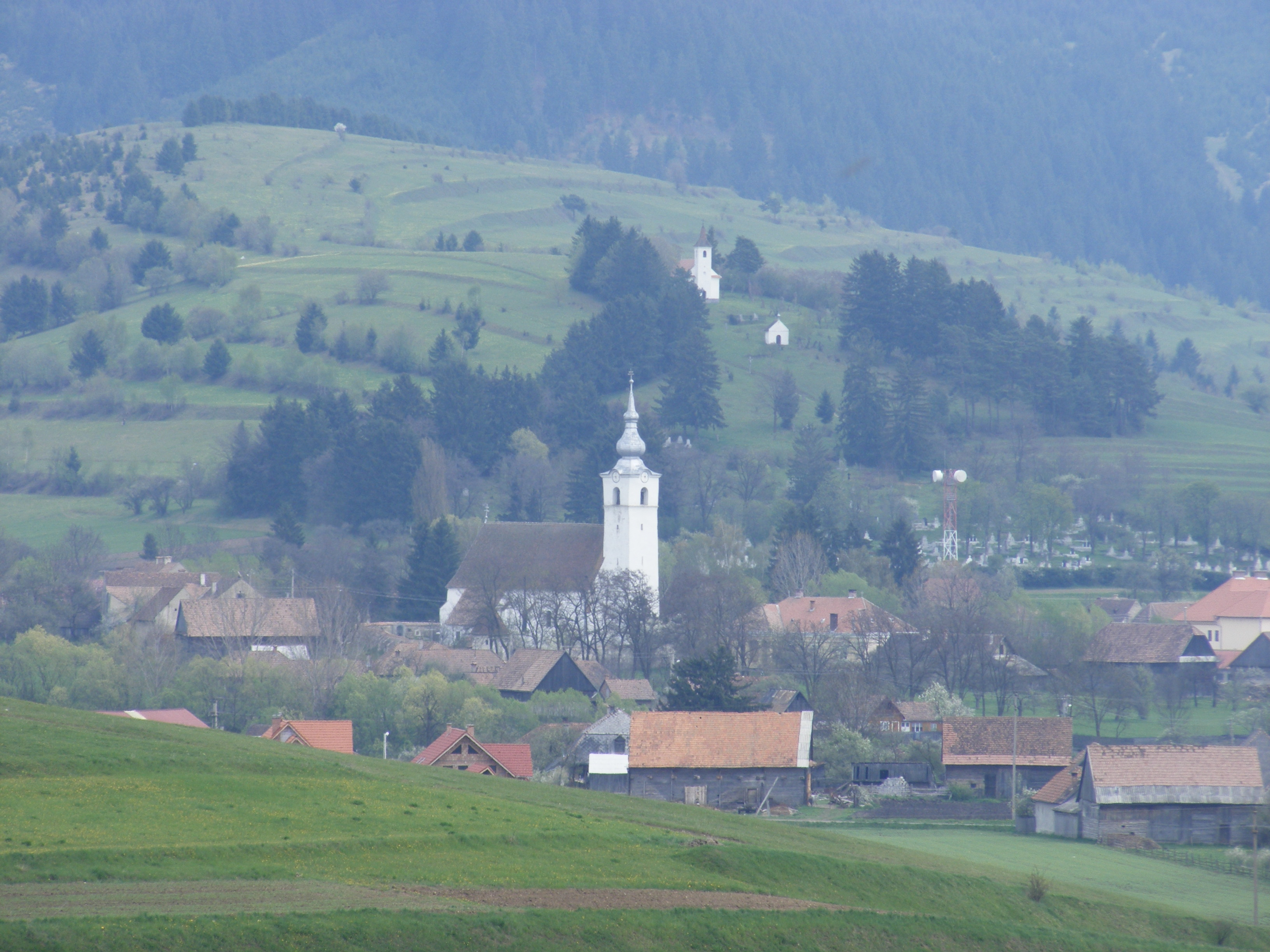 Csíkbánkfalva (Bancu), Transsilvany, Hargita county.